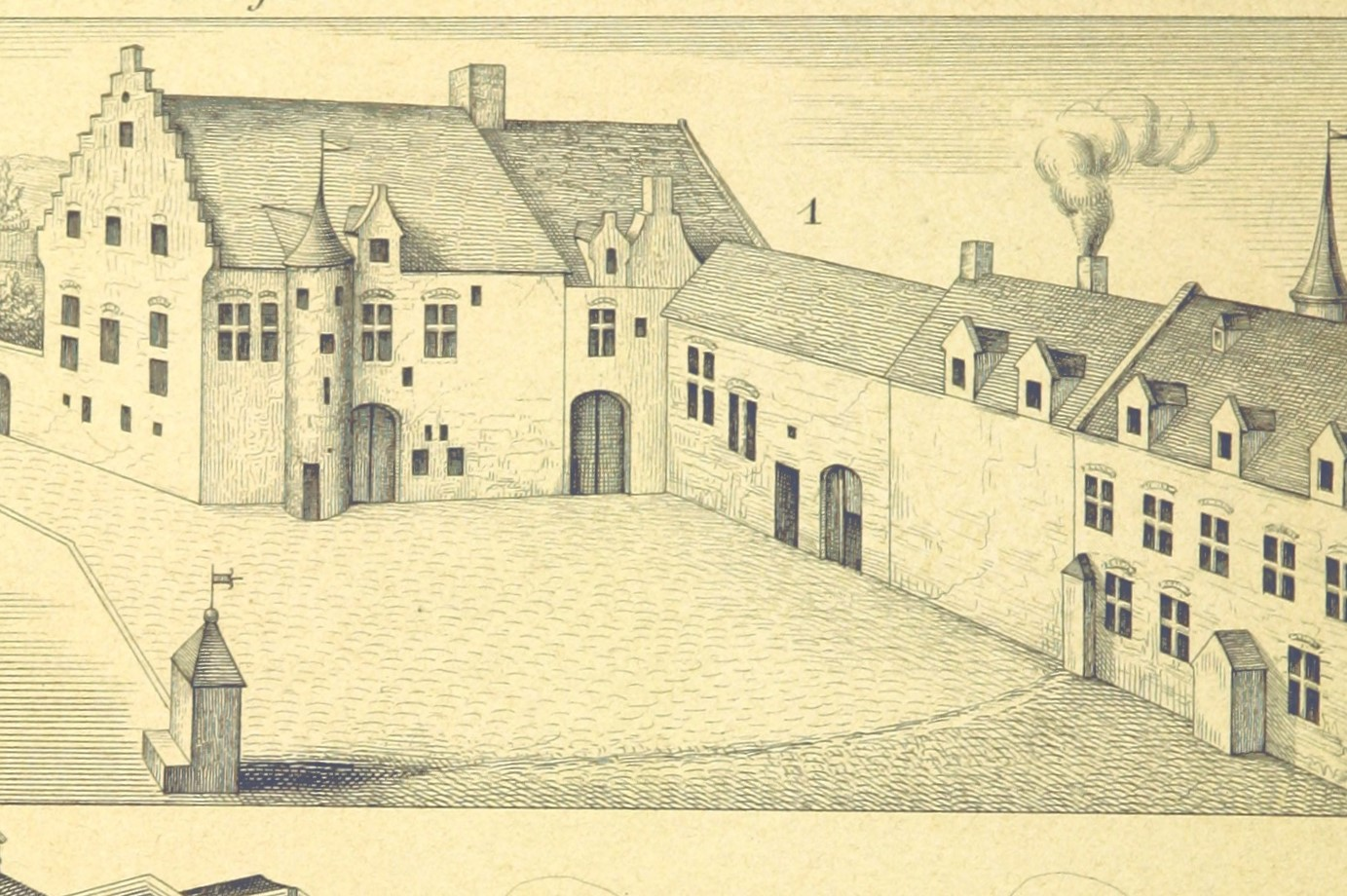 Former university students' home in Leuven (Belgium), named 'Het Varken'